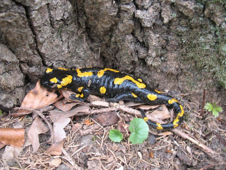 Salamandra salamandra in national nature reserve Kaluža in Opava District, Czech Republic